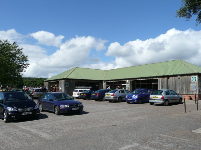 The cafe at Cannon Hall Farm